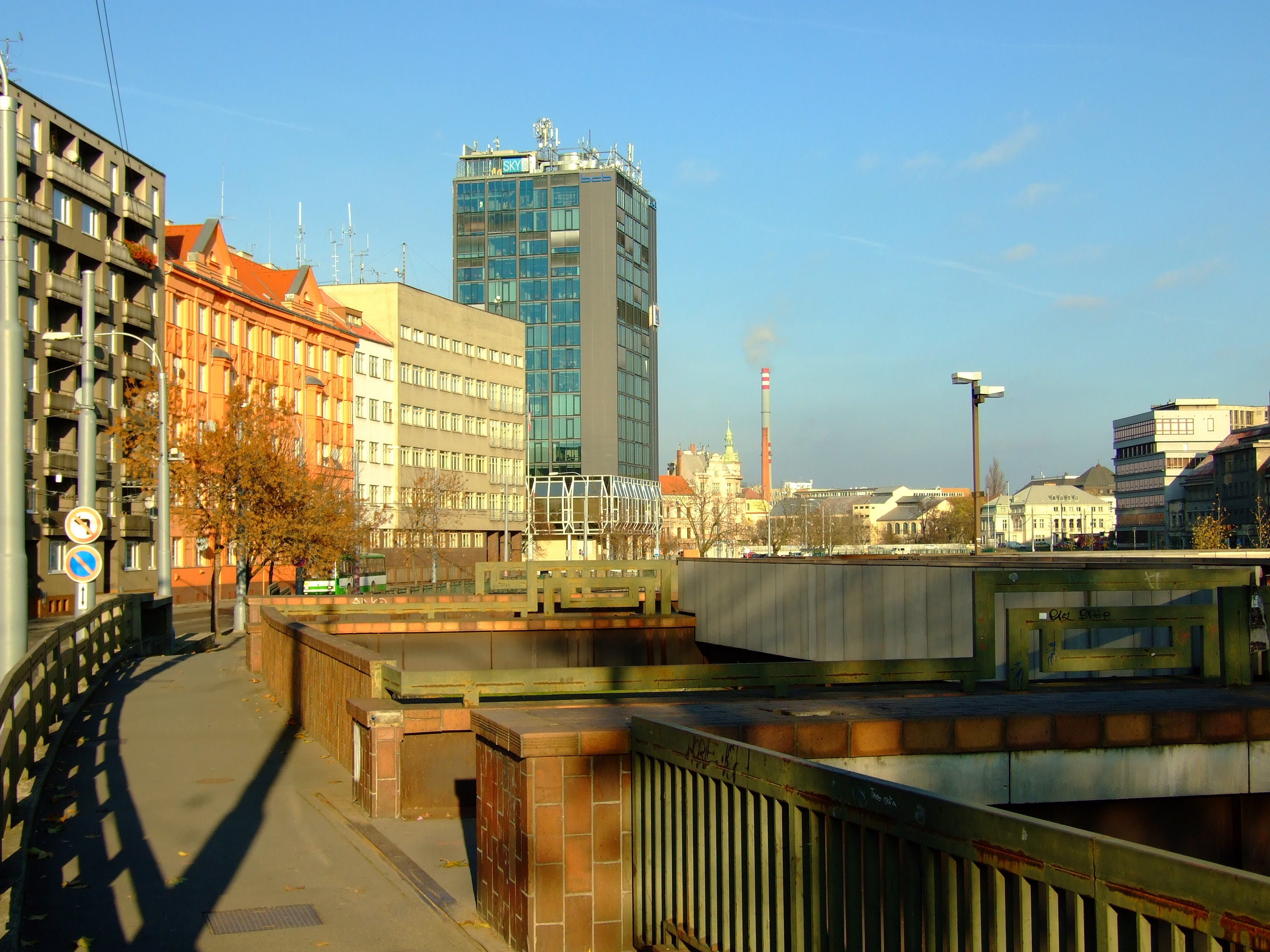 Pilsen, CZhelp